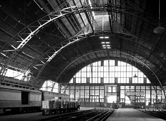 Grand Central Station; 1963 INTERIOR: TRAIN SHED Historic American Buildings Survey Cervin Robinson, Photographer July, HABS ILL,16-CHIG,18-2 Grand Central Station